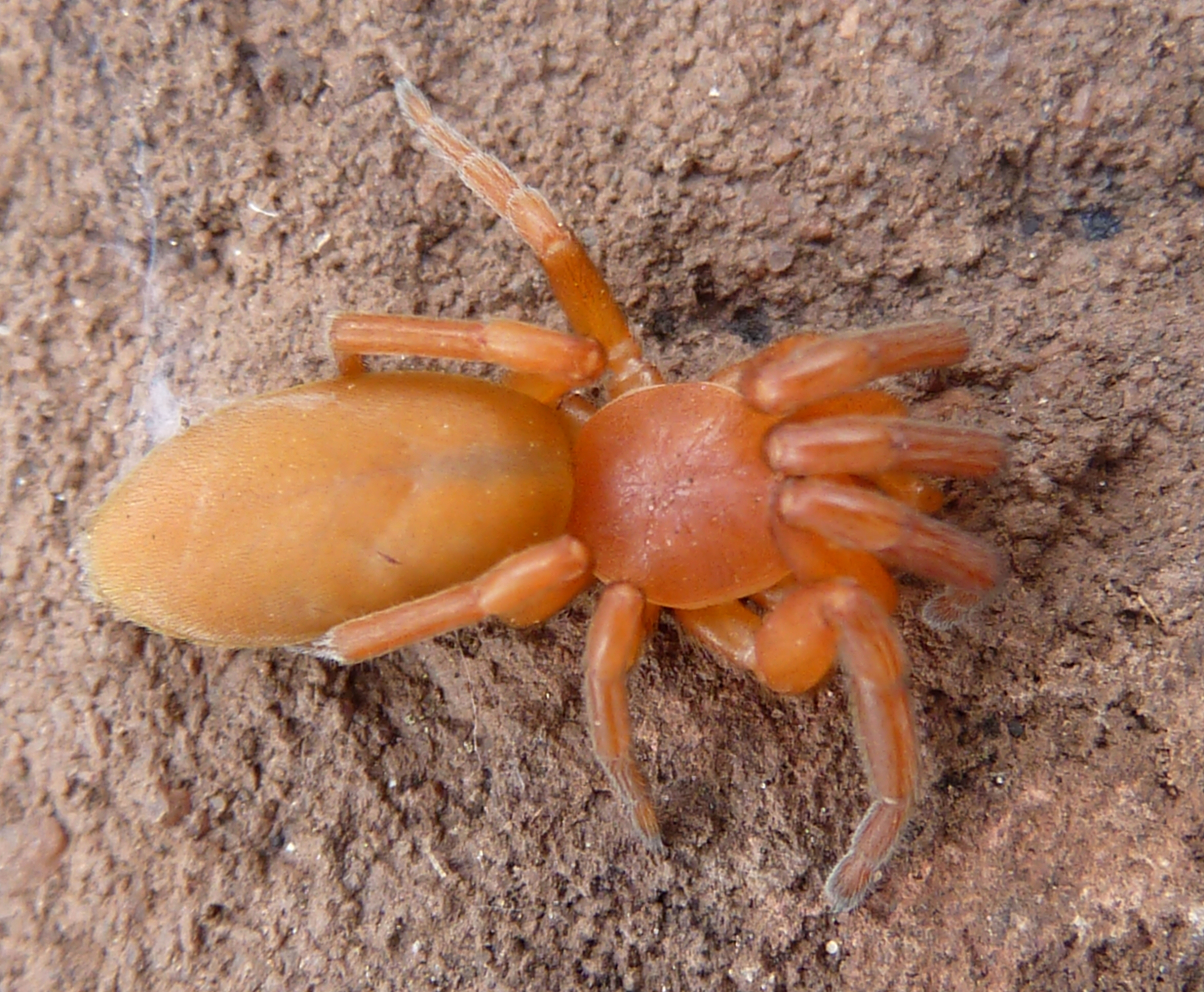 A species of Eight-eyed orange lungless spider found in the crevasse under a large loose rock at Little Eden in De Tweedespruit conservancy, Gauteng, South Africa